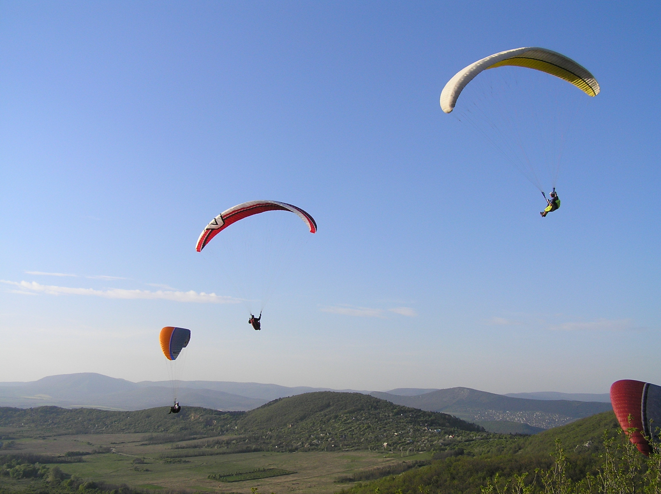 Paragliders near Hármashatár-hegy (Budapest, Hungary)